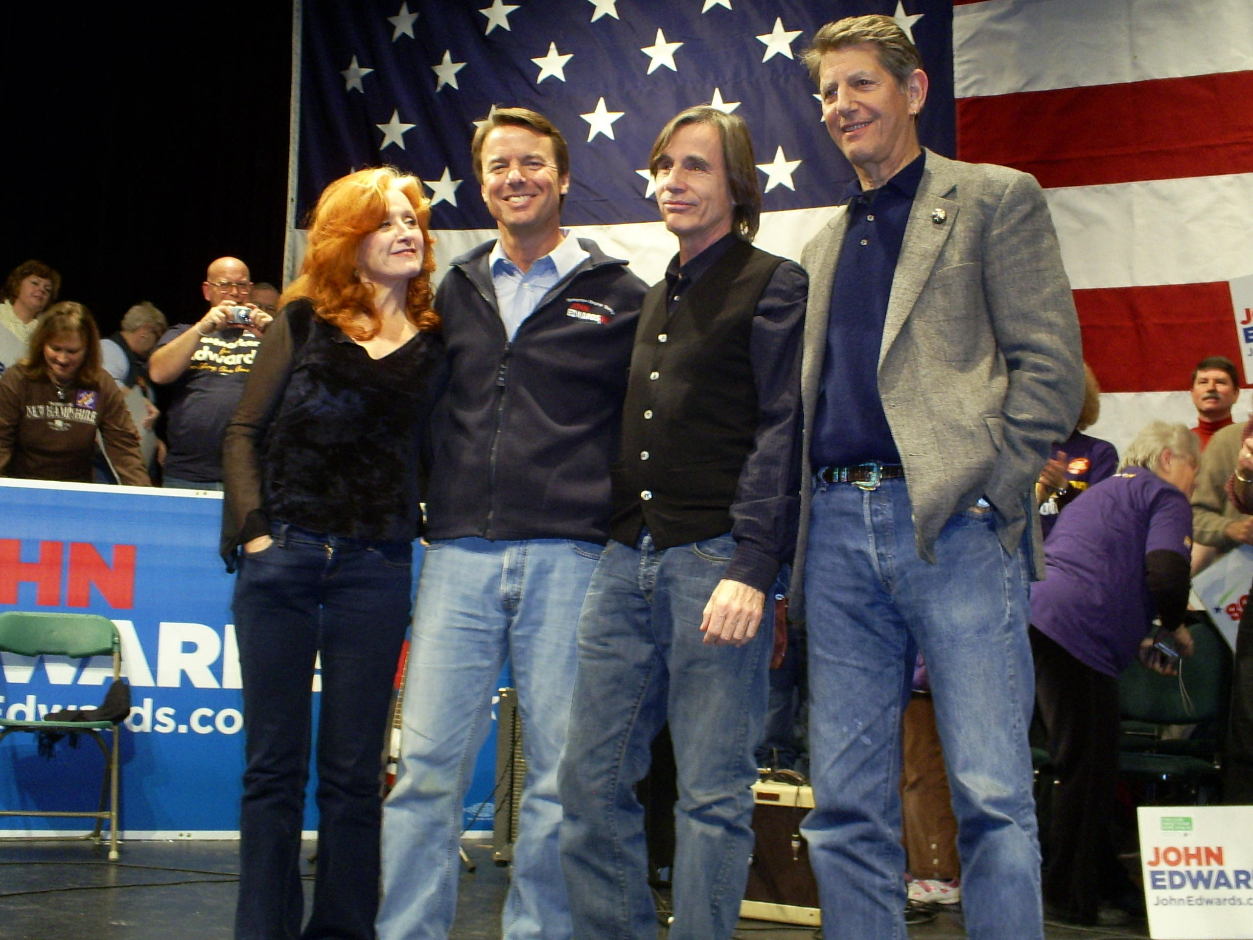 Photo by Craig Michaud.This was taken in 2008 at a campaign event for Presidential candidate John Edwards in Manchester New Hampshire. Jackson Browne and Bonnie Raitt both appeared and played in support of Edwards, as did Peter Coyote.